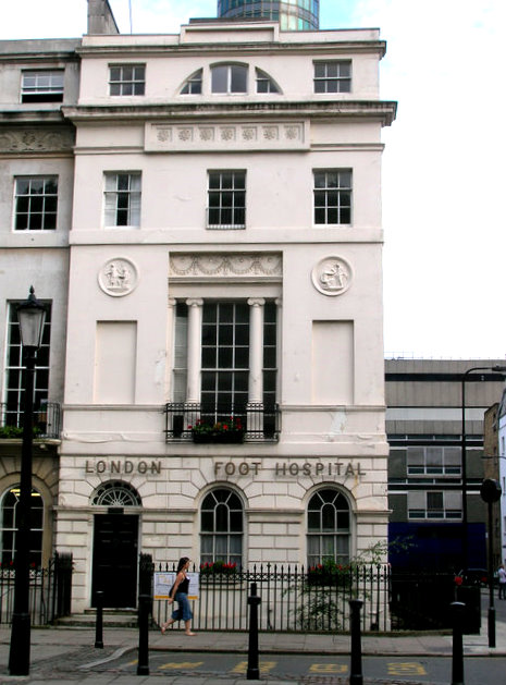 London Foot Hospital, Fitzroy Square, London W1